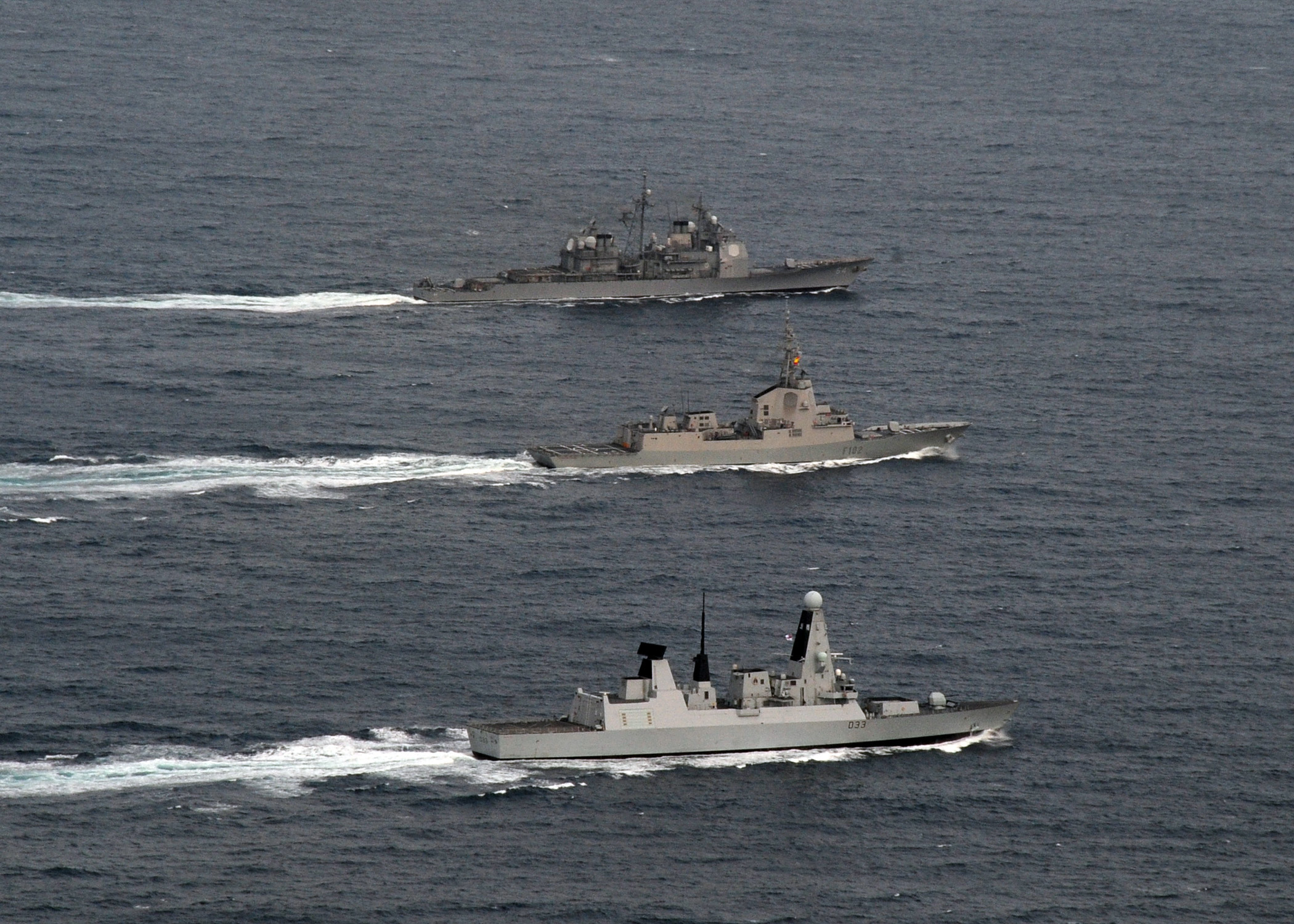 ATLANTIC OCEAN (May 20, 2011) The Royal Navy destroyer HMS Dauntless (D33), the Spanish navy air defense frigate Almirante Juan de Borbon (F-102), and the guided-missile cruiser USS Gettysburg (CG 64) are underway in formation during the British navy-sponsored joint exercise Saxon Warrior 11. The George H.W. Bush Carrier Strike Group is deployed to the U.S. 6th Fleet area of responsibility supporting maritime security operations and theater security cooperation efforts. (U.S. Navy photo by Mass Communication Specialist 3rd Class Nicholas Hall/Released)